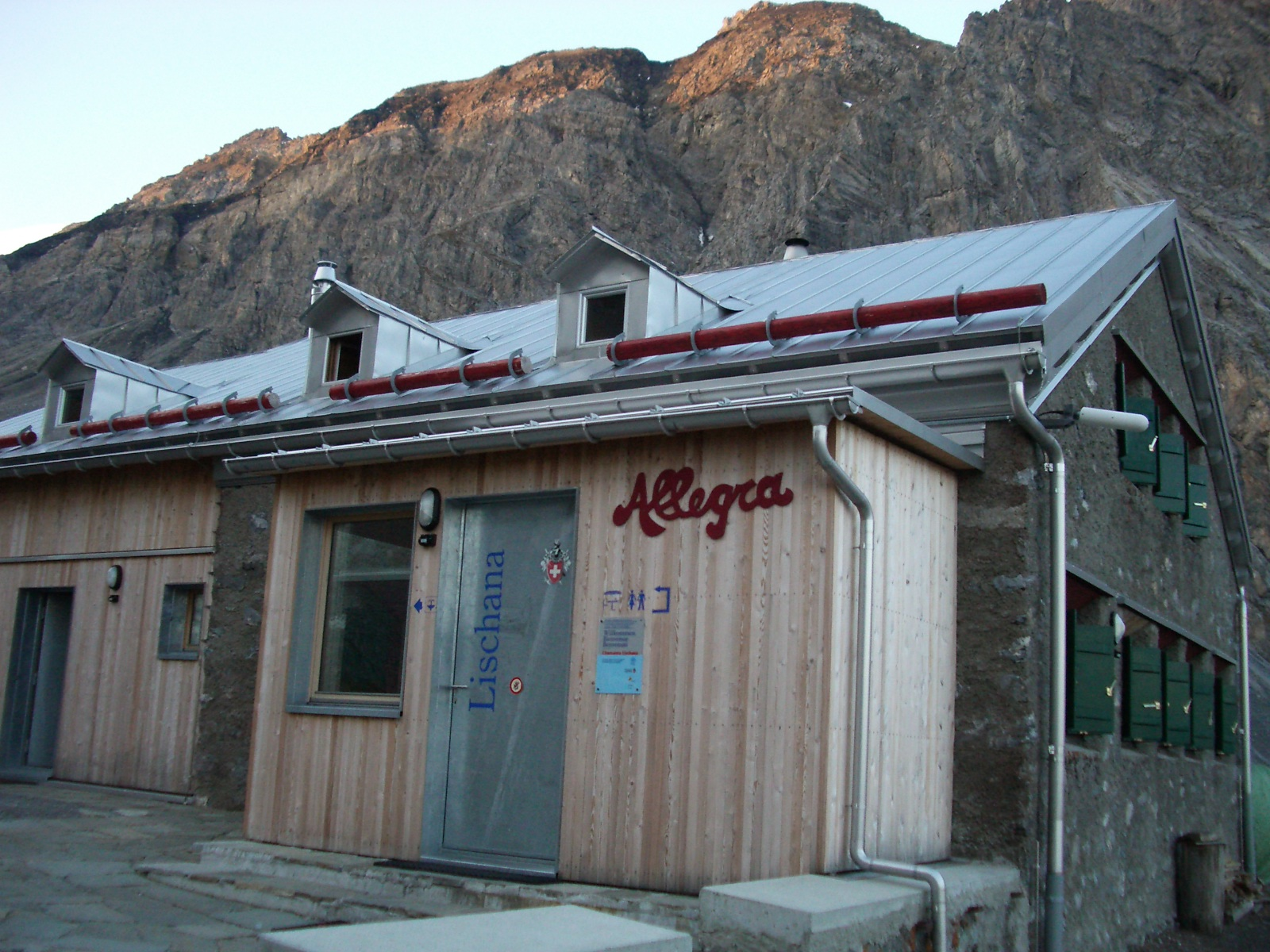 Chamanna Lischana, an alpine hut of the Swiss Alpine Club (SAC), Scuol, Grisons, Switzerland. Rumantsch: Chamanna Lischana, Club Alpin Svizzer (CAS)